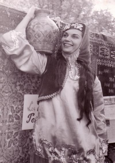 Monir Vakili in festival celebrating Persian Folk Music, 1948